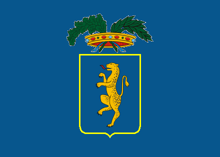 Flag of the province of Lucca, Italy